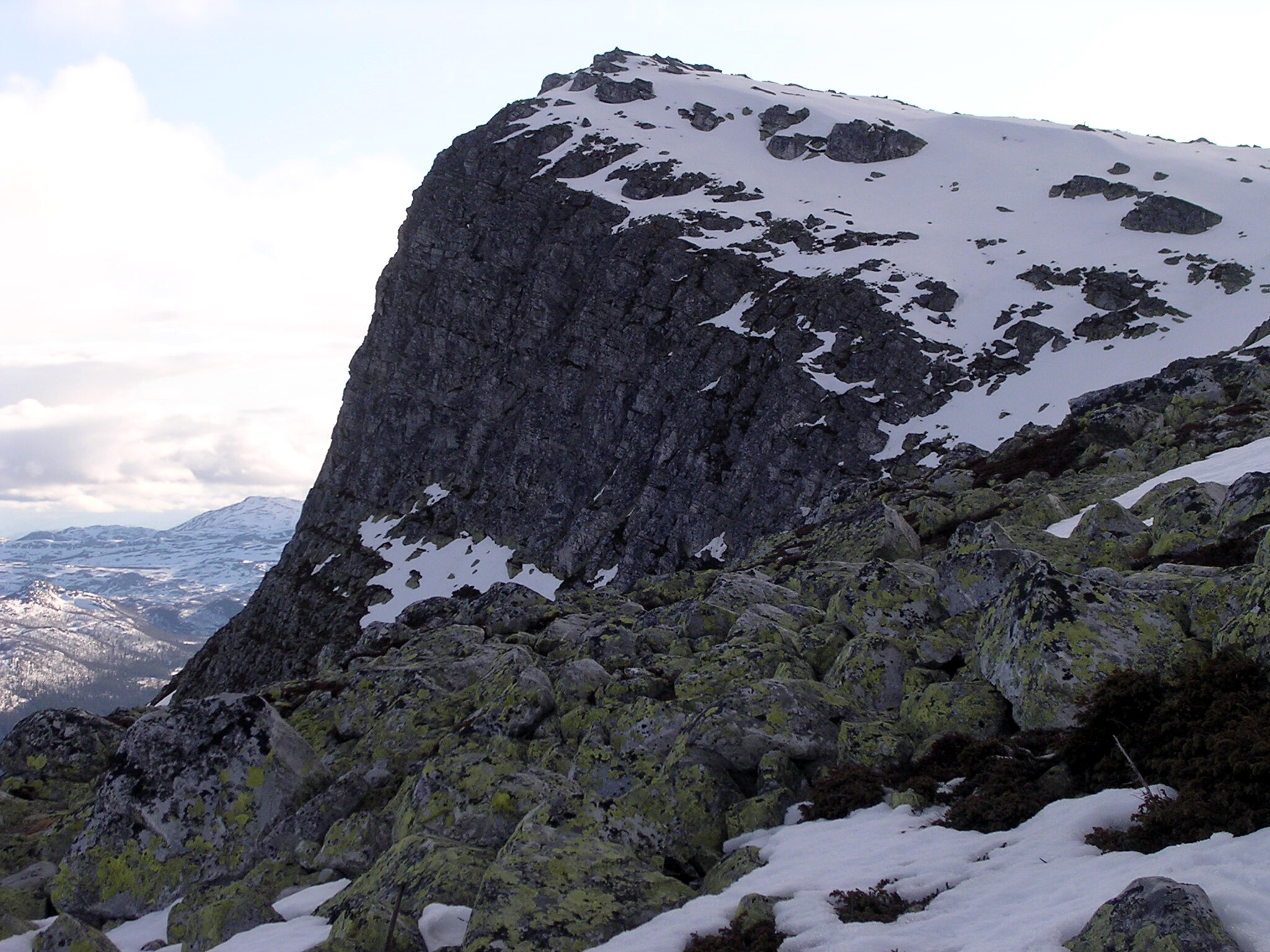 The lower summits of yhe mountain Gaustatoppen, this picture is the small Gaustakne (1443 metres). Seen from east. In the minicipality of Hjartdal, Norway.